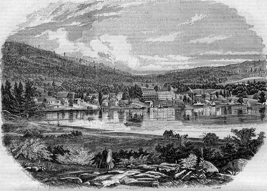 Caldwell Village, New York, a wood engraving published November 1854 in Gleason's Pictorial Drawing-Room Companion, Boston, Massachusetts. Note: Caldwell Village is now the Village of Lake George within the town of Lake George, New York.